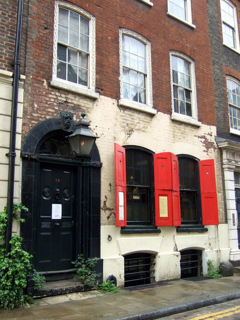 18 Folgate Street Better known as Dennis Severs' House, after the former resident (died 1999) who devised a unique re-creation of the past within these walls. With the emphasis upon atmosphere rather than authenticity, Dennis Severs furnished, decorated and equipped the place to appear exactly as it might be were a visitor to wander in upon the imaginary family while they were momentarily absent but with everything just as if they had but slipped out: fires lit, candles burning, meals half-eaten, books and embroidery flung down, not to mention the sounds and smells of Georgian life too. It knocks any other historical re-creation into a cocked hat and is most highly to be recommended: "Either you see it...or you don't".